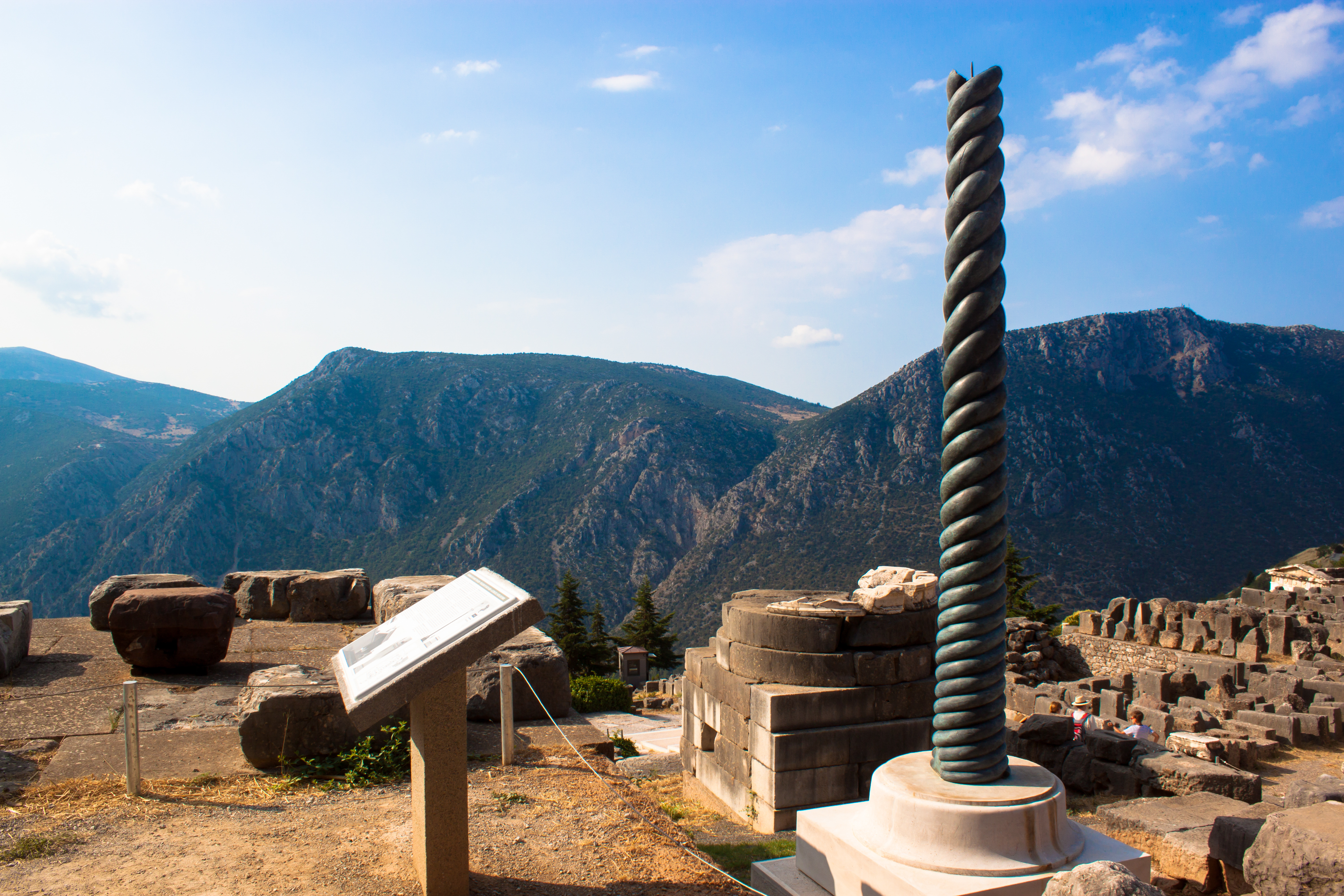 Bronze replica of the Serpent Column (part of the Delphi Tripod) erected in Delphi in 2015, and Temple of Apollo. The original Serpent Column stand in Istanbul.